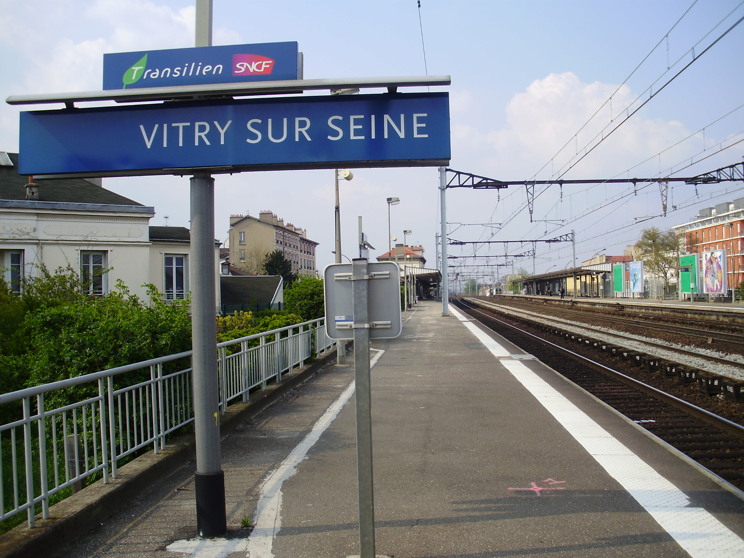 Vitry-sur-Seine station, Val-de-Marne, France - platform towards Paris